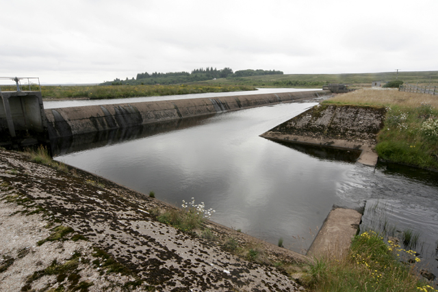 Dam at the head of Loch Shurrery. A view of the dam at the head (north end) of Loch Shurrery, the start of the Forss Water is to the right of the image.